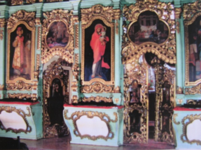 The sovereign pictures of the iconostase of the Greek Catholic Cathedral of Hajdúdorog, Hungary. The iconostase got its green colouration in 1937 which was removed during the 2001-2002 restoration of the wall.